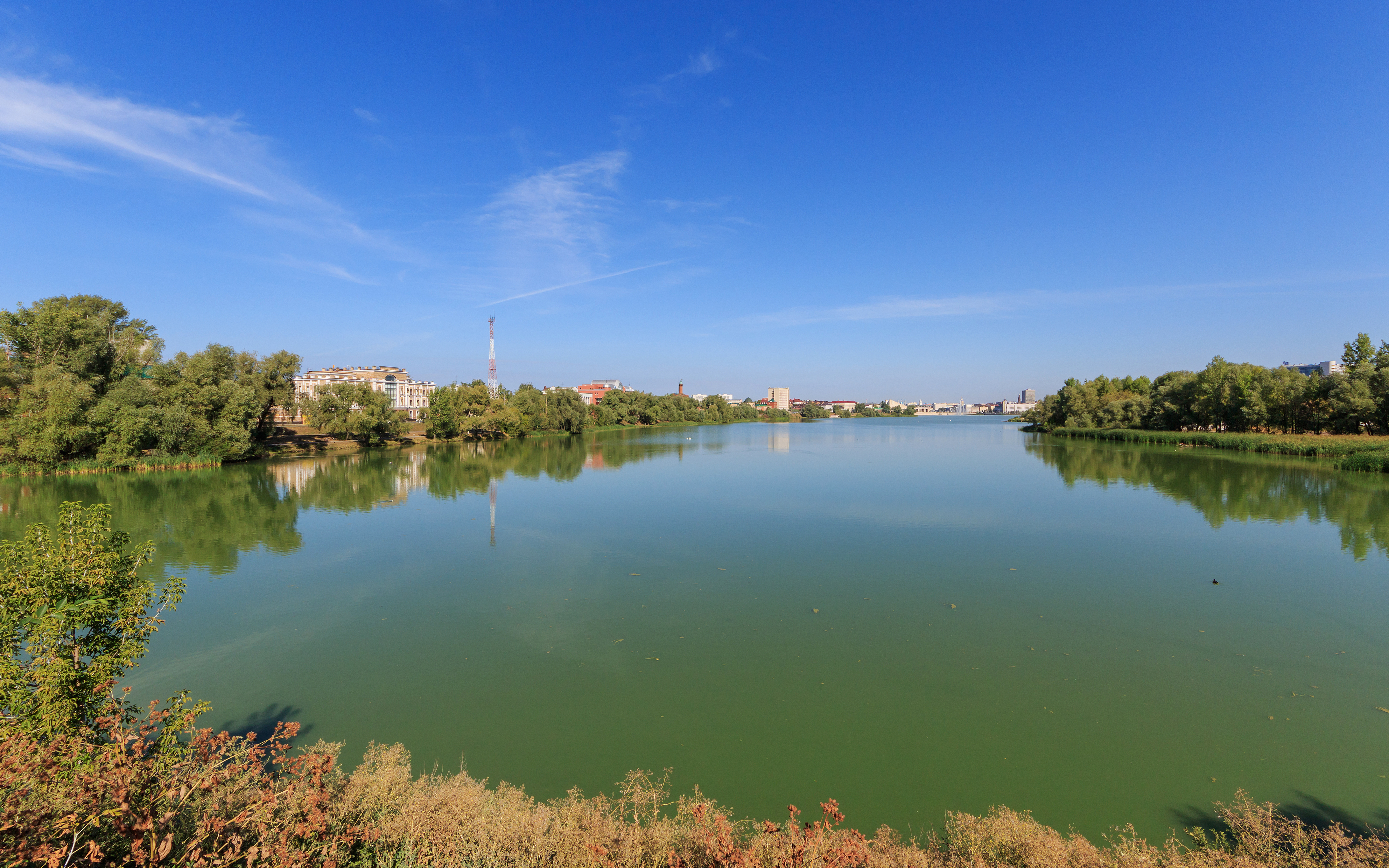 Lower Qaban Lake in Kazan, Russia